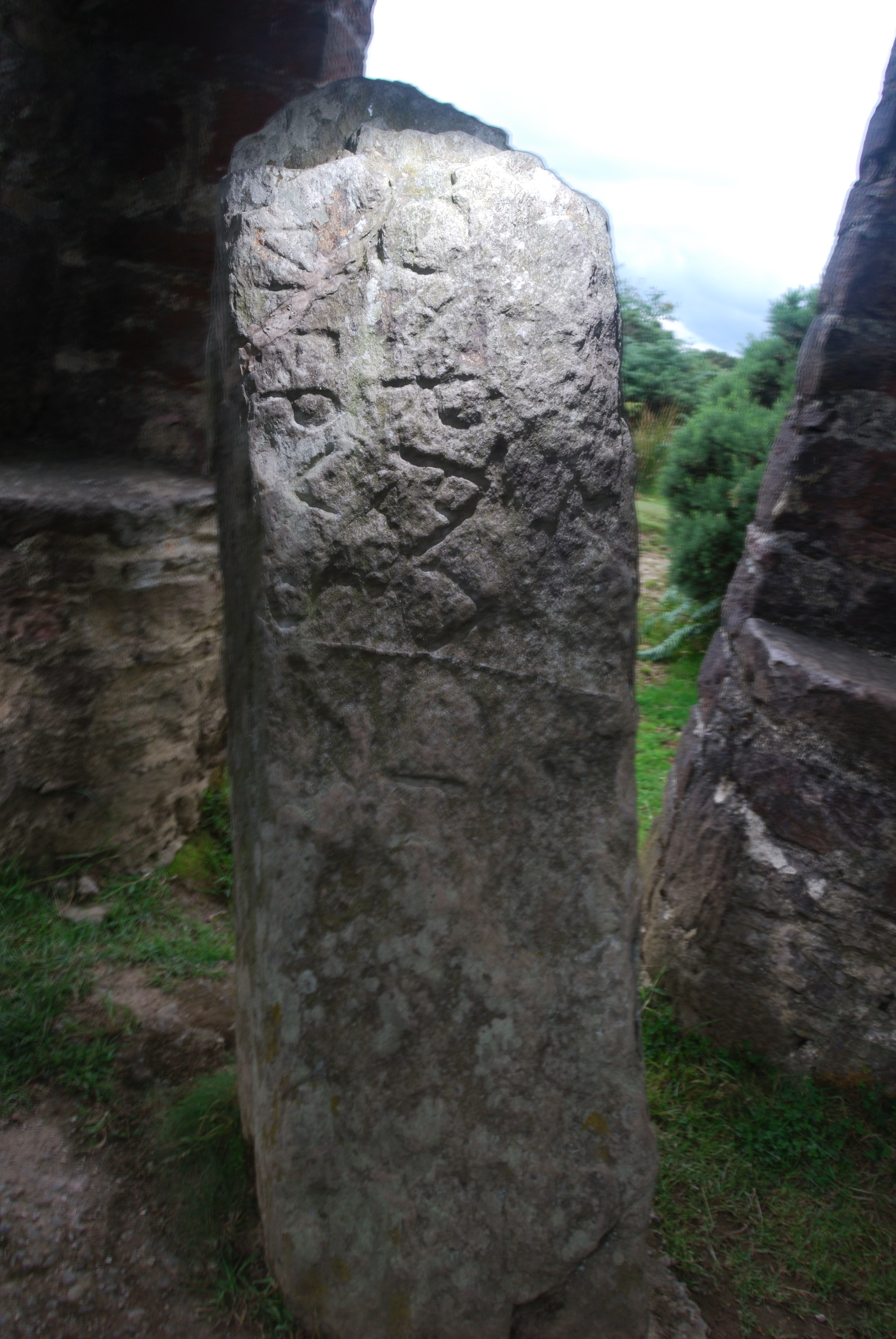 Caractacus Stone, lit with off-camera flash to try to bring out the inscription a bit better